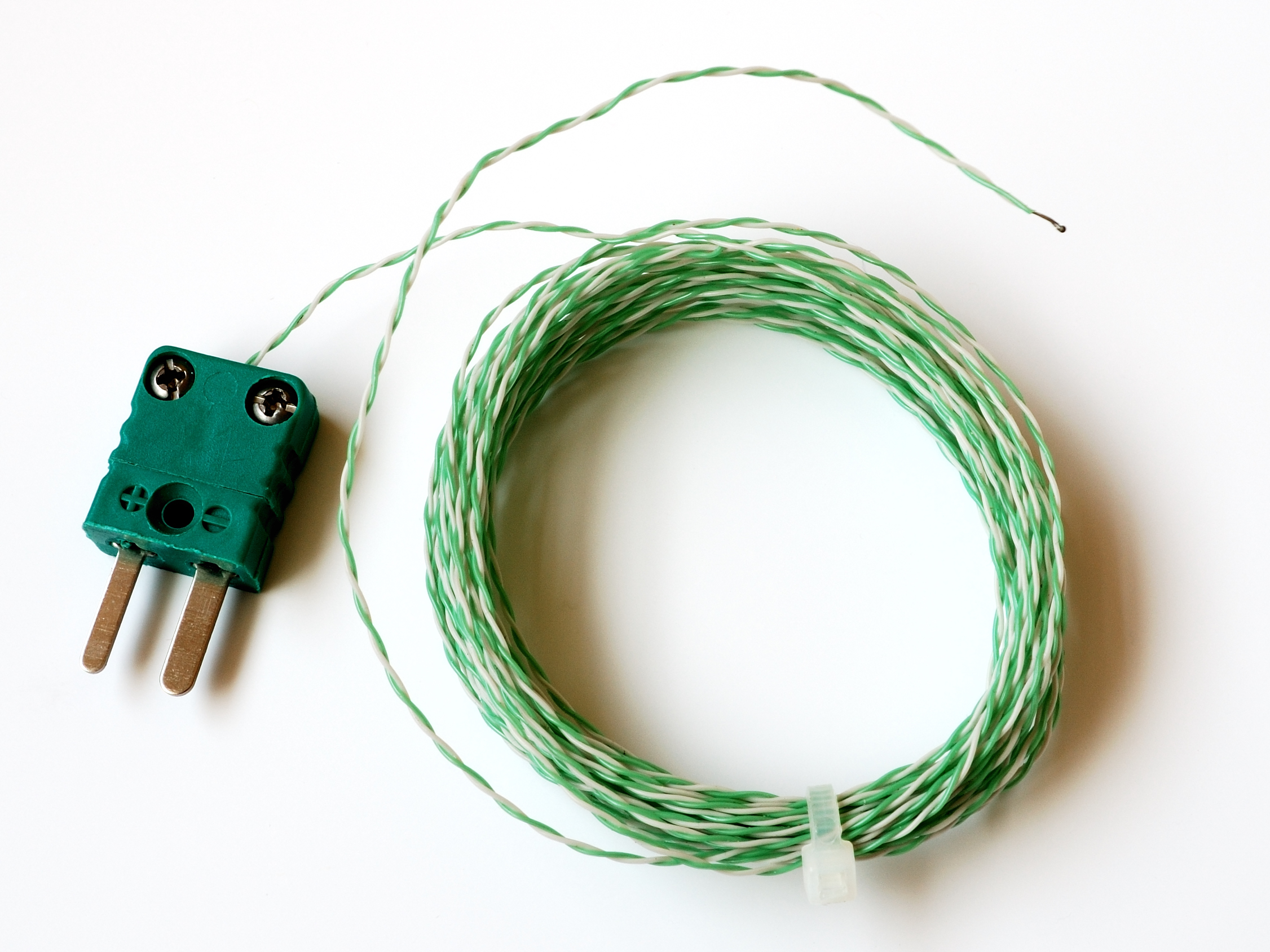 Thermocouple type K, welded, with a connector. IEC color code: green= +, white= -, connector color green. Wire diameter 2x 0.2 mm, length 5 m.